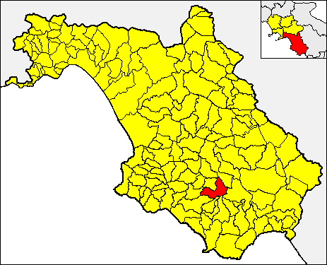 Locator map of the municipality of Novi Velia (red) within the Province of Salerno